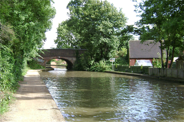 Bridge 44, Grand Union Canal, Warwick The bridge carries the A425 Myton Road between Warwick and Leamington, south of the Rivers Avon and Leam.